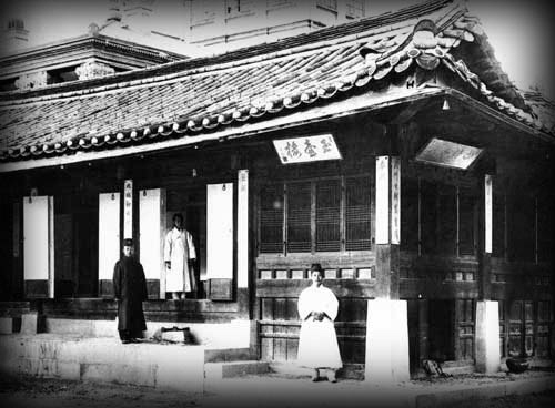 Okhoru Pavilion in Geoncheonggung, Gyeongbokgung where Empress Myeongseong of the Korea Empire was assassined by Japanese criminals.